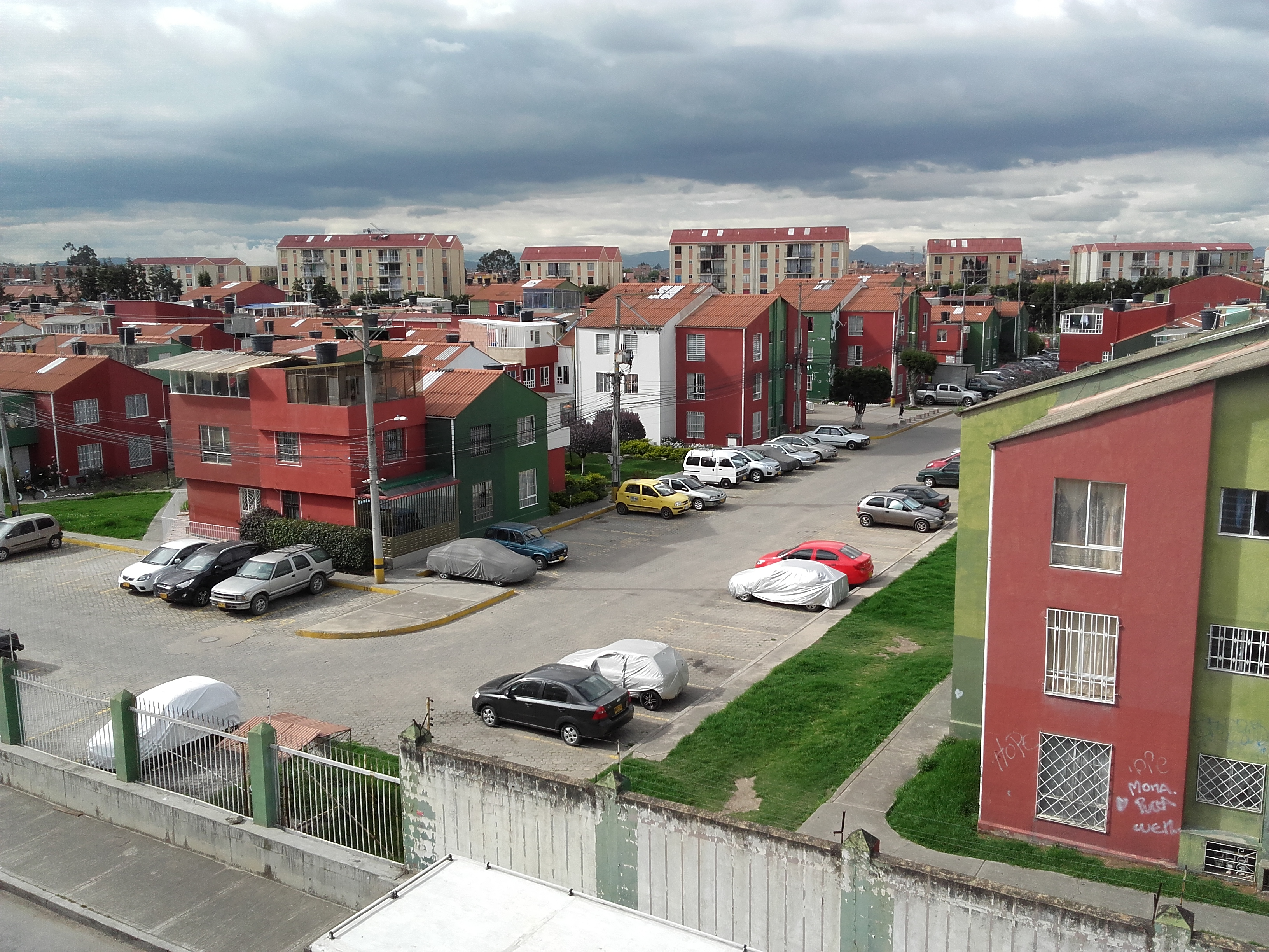 Soacha, Cundinamarca